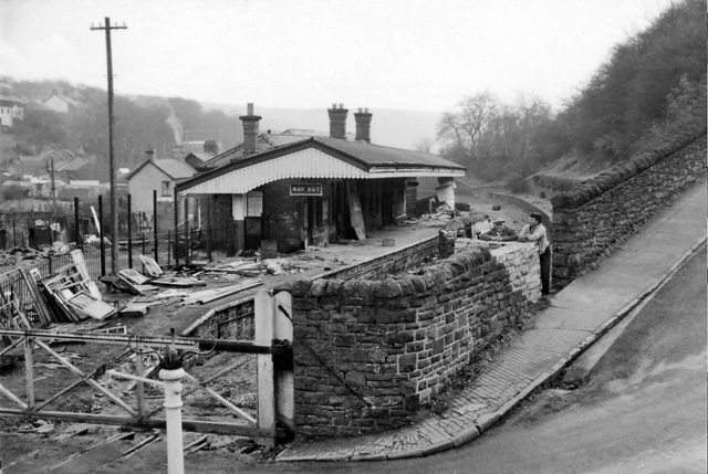 Blaenavon (Low Level) Station (remains). View SE, towards Pontypool and Newport; terminus of GW line from Newport via Pontypool, closed completely 30/4/62. The station seems quite intact three years later.